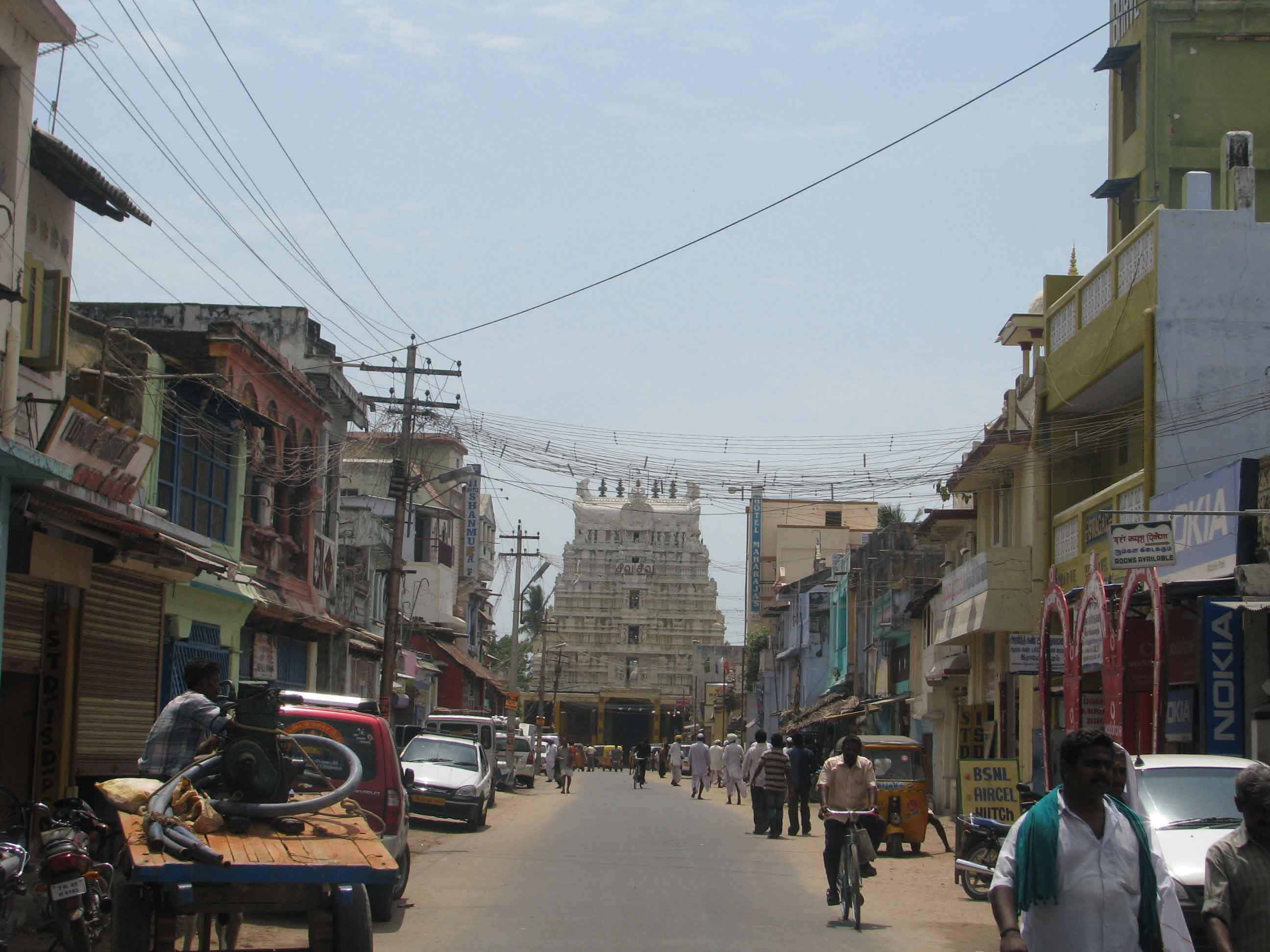 Rameswaram